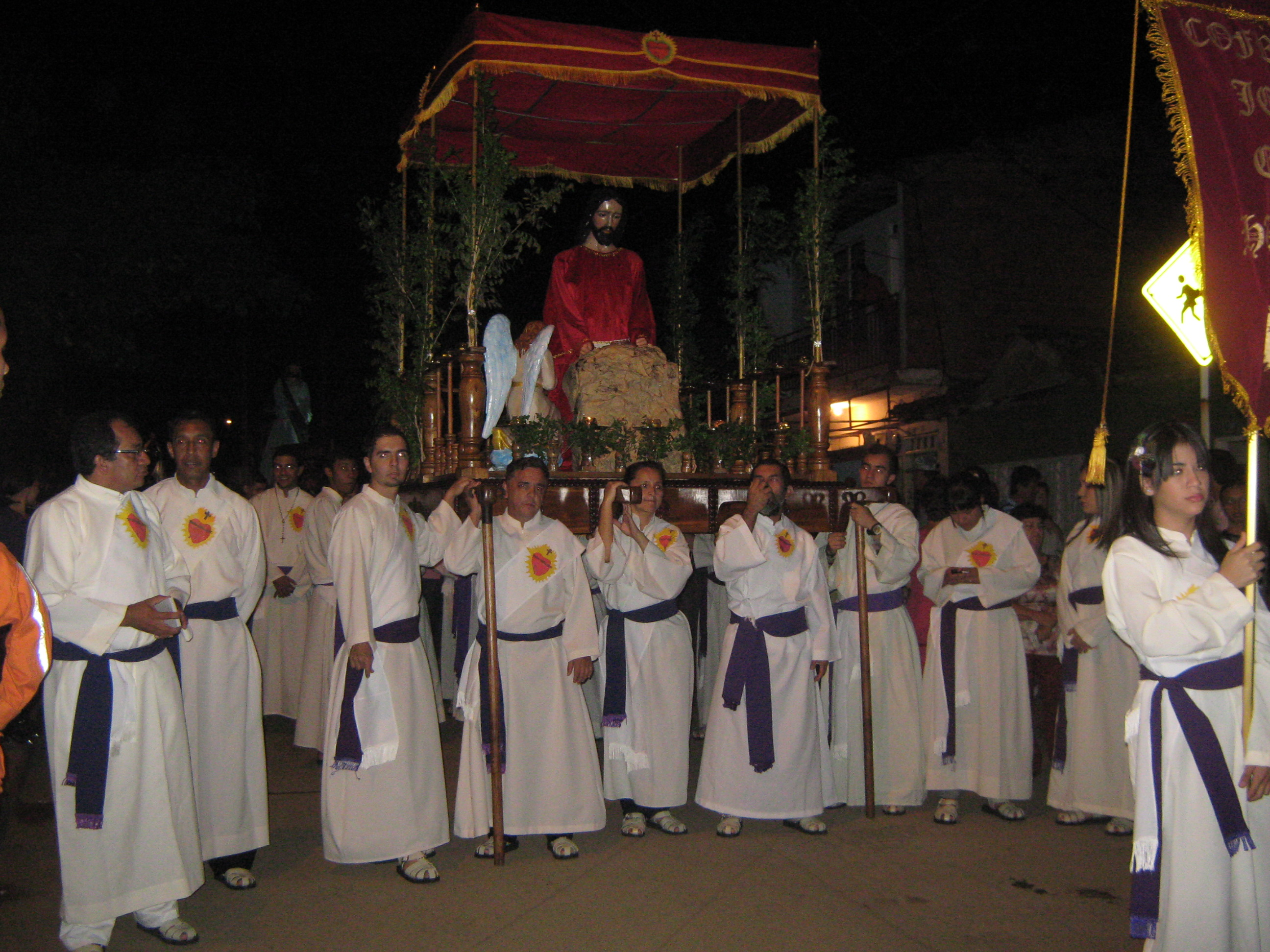 Jesus en el huerto Semana Santa Yumbo